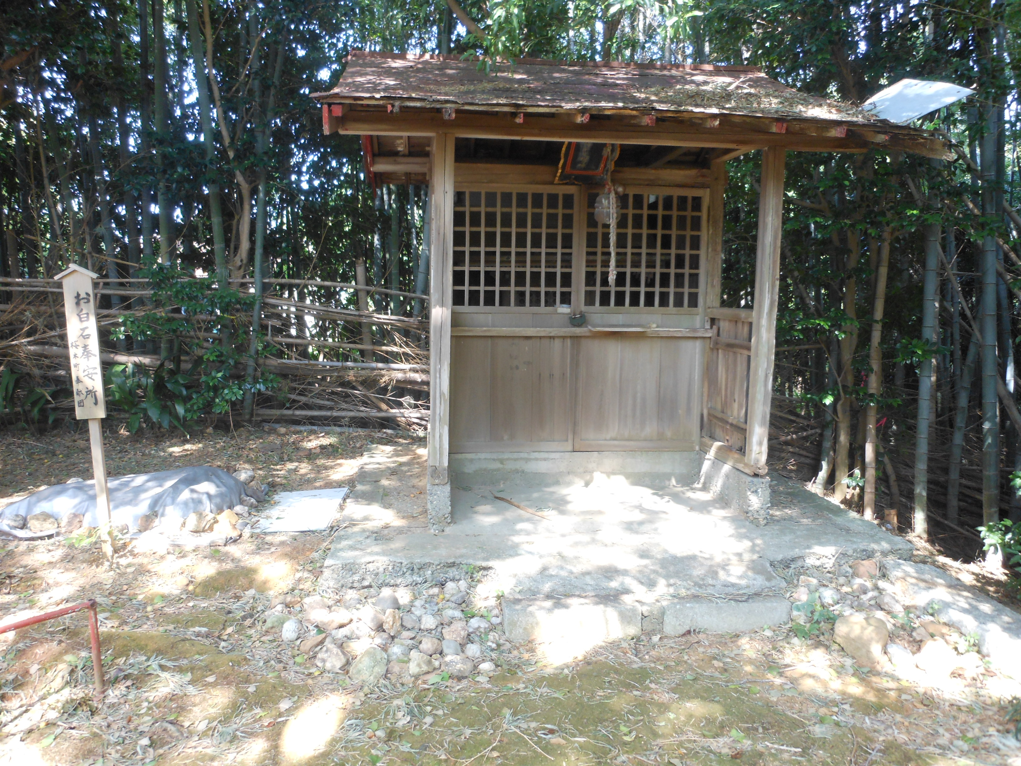 This is a hory place to collect and keep white stones for Ise Jingu.